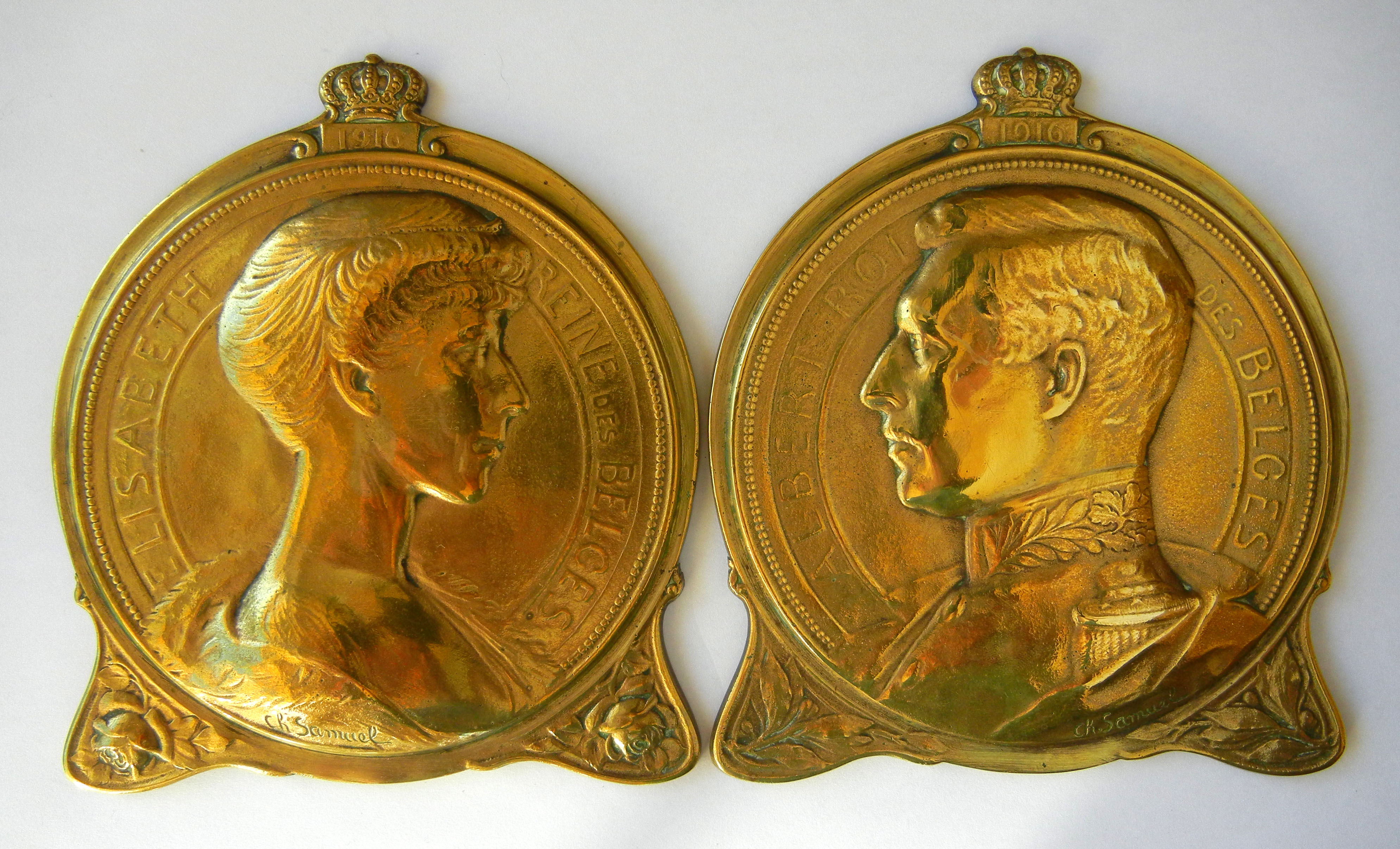 Medallions Albert and Elisabeth of Belgium, 1916, by Charles Samuel (1862-1938). Sold for the benefit of the Home for Orphans. Dimensions 14.5 x 13 cms, weight 610 grams.